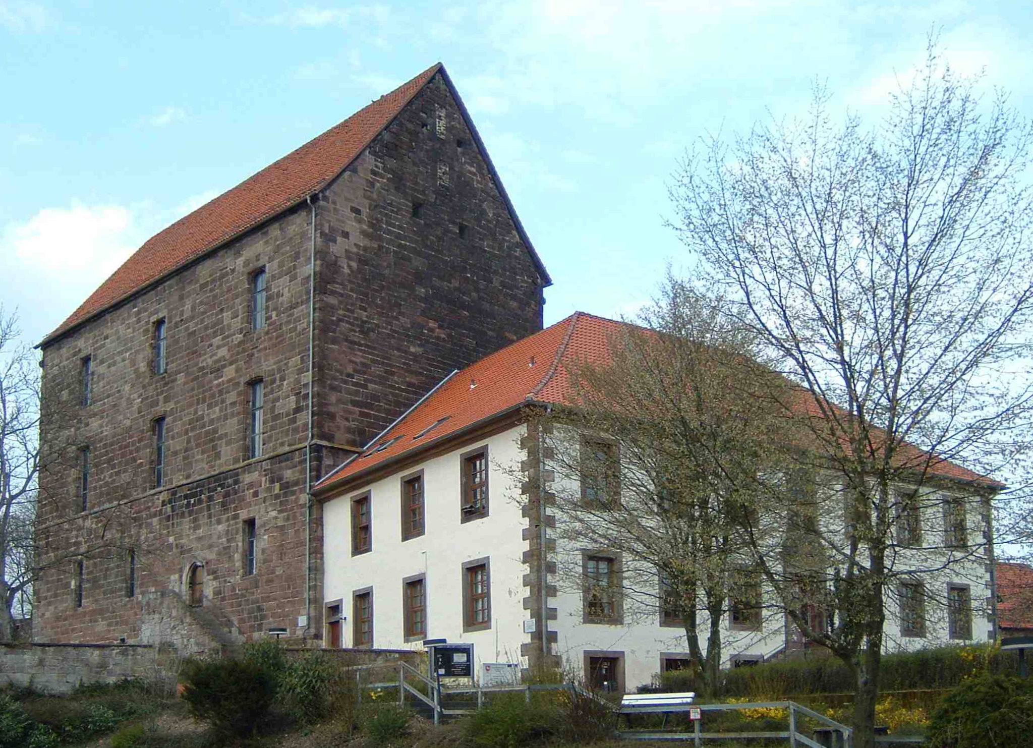 Inner buildings of the Hardeg Castle in Hardegsen, Germany